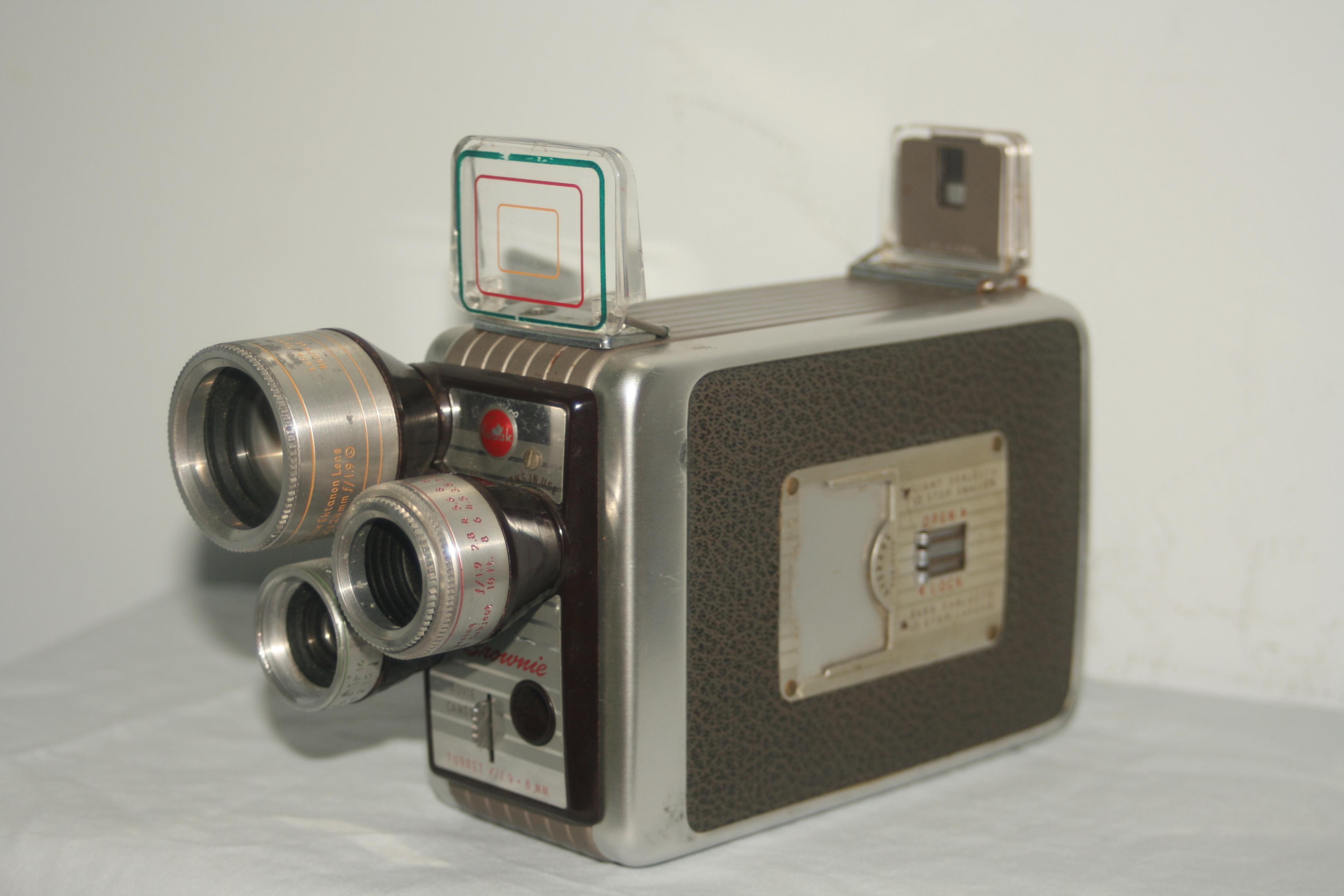 Brownie Turret - 1958. With Scopesight and 3-lens turret with f1.9 lenses. This was the most expensive Brownie, selling for $99.50